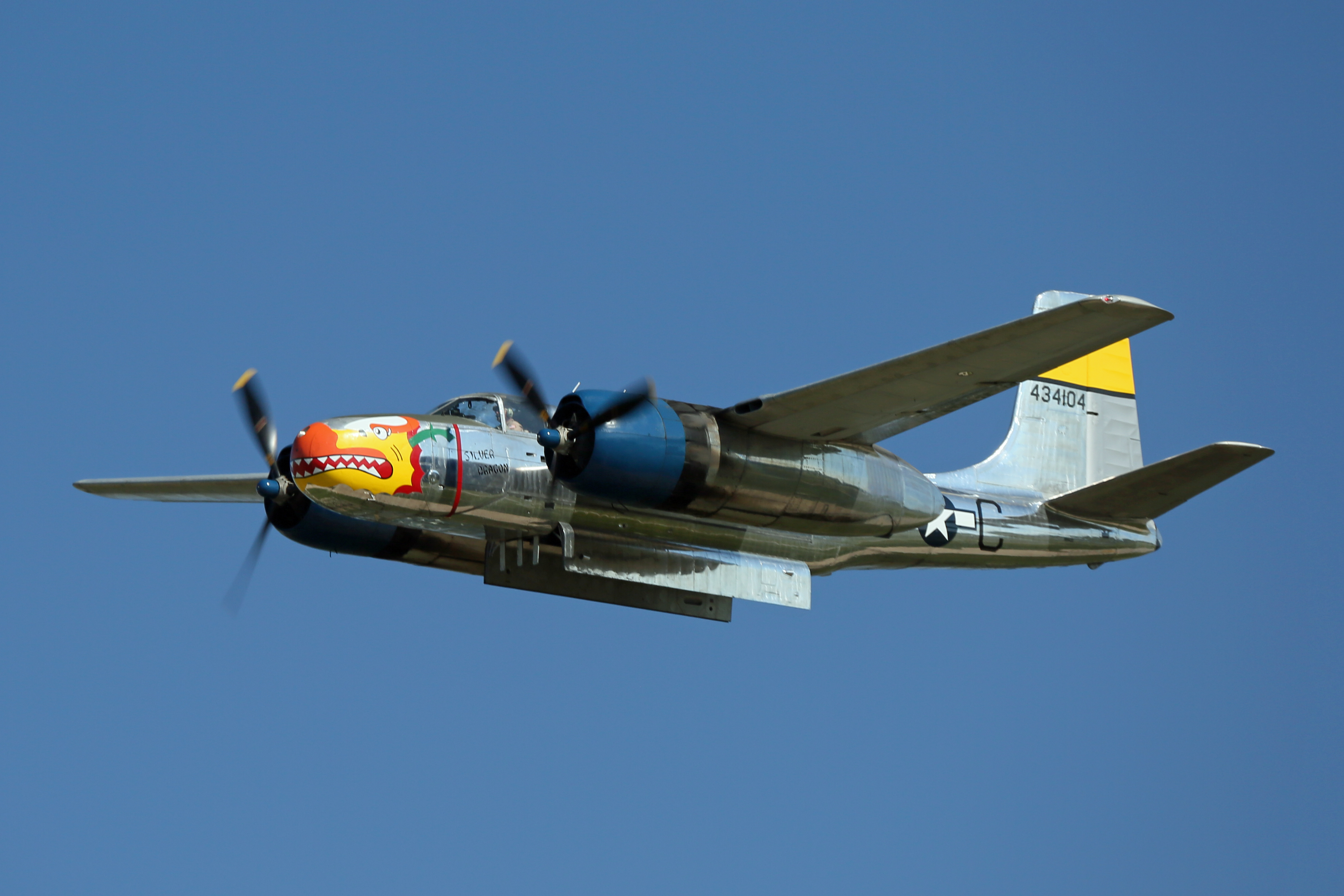 Douglas A-26 Invader